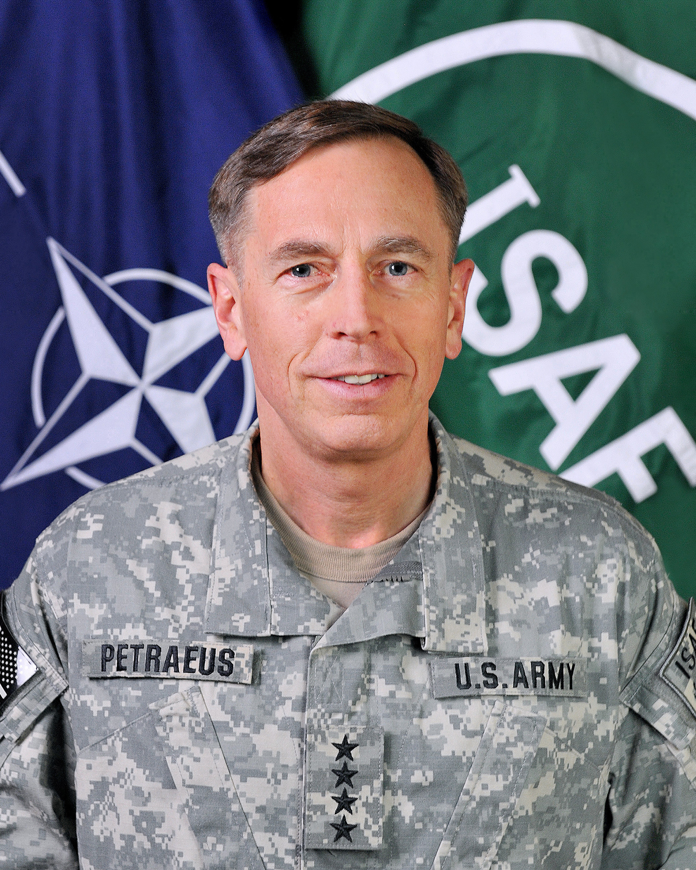 Official photograph of General David H. Petraeus